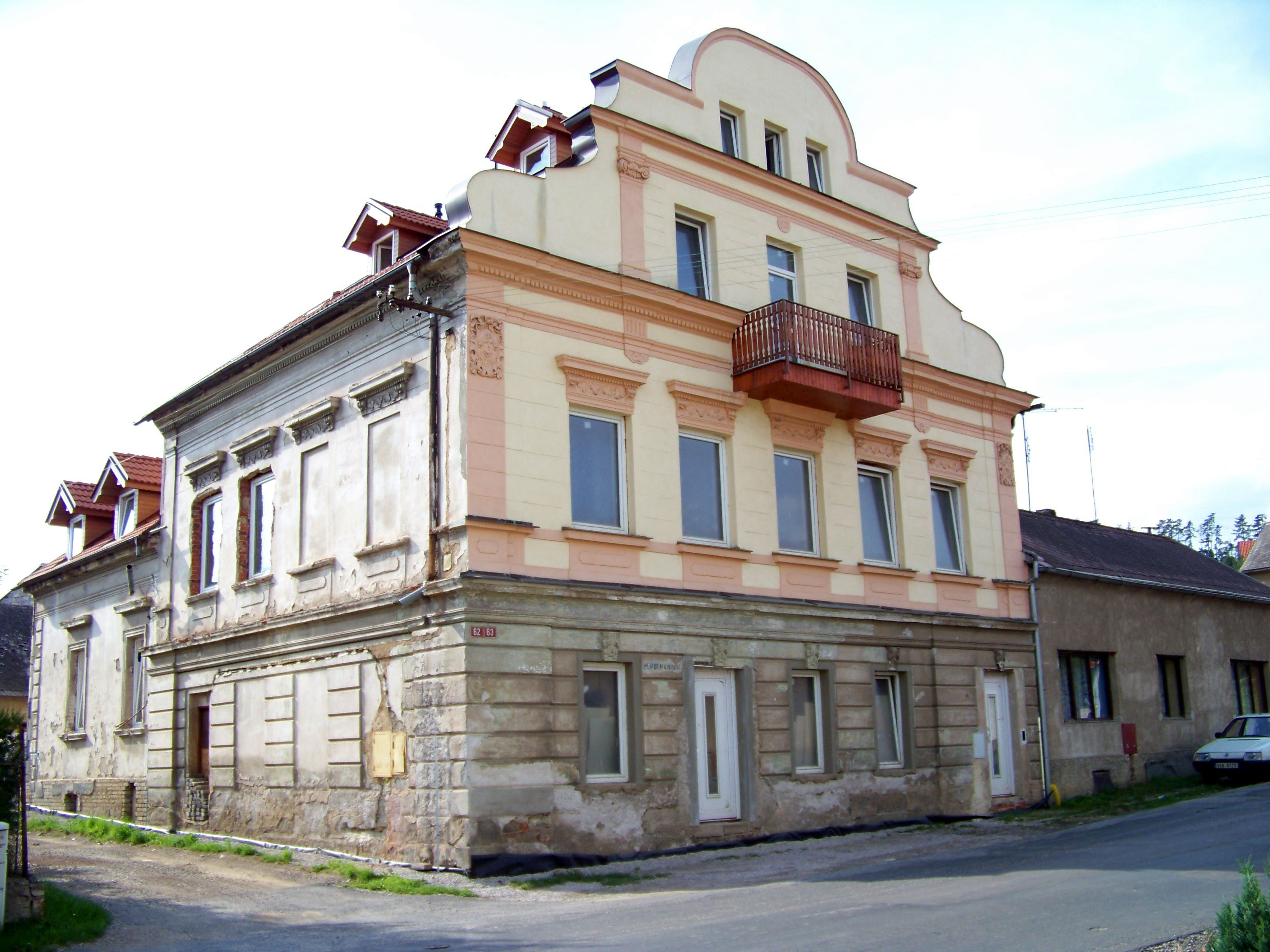 Králův Dvůr-Počaply, Beroun District, Central Bohemian Region, the Czech Republic. Fügnerova street, houses.